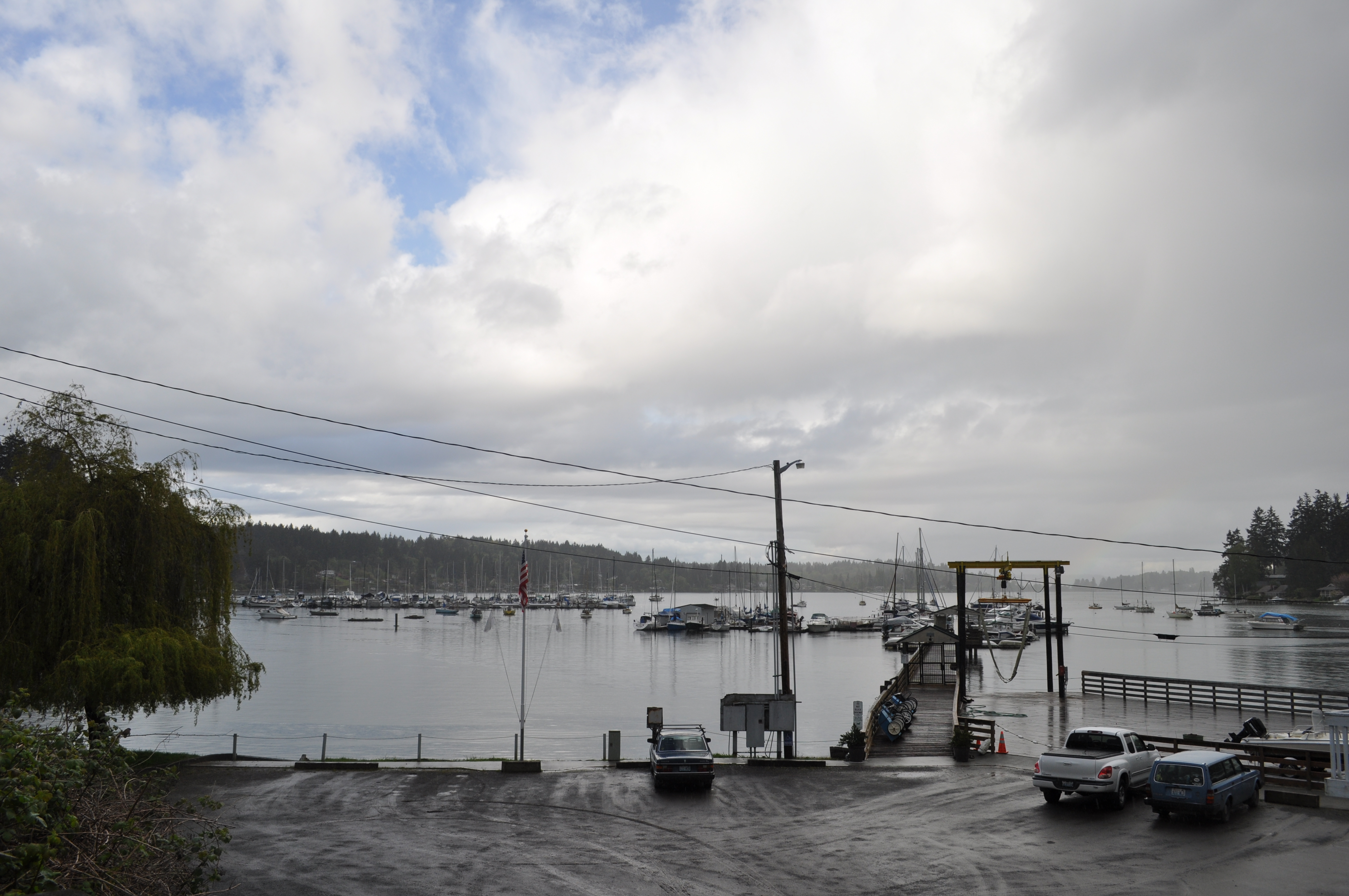 Quartermaster Harbor, Puget Sound, seen from Burton, Vashon Island, Washington.